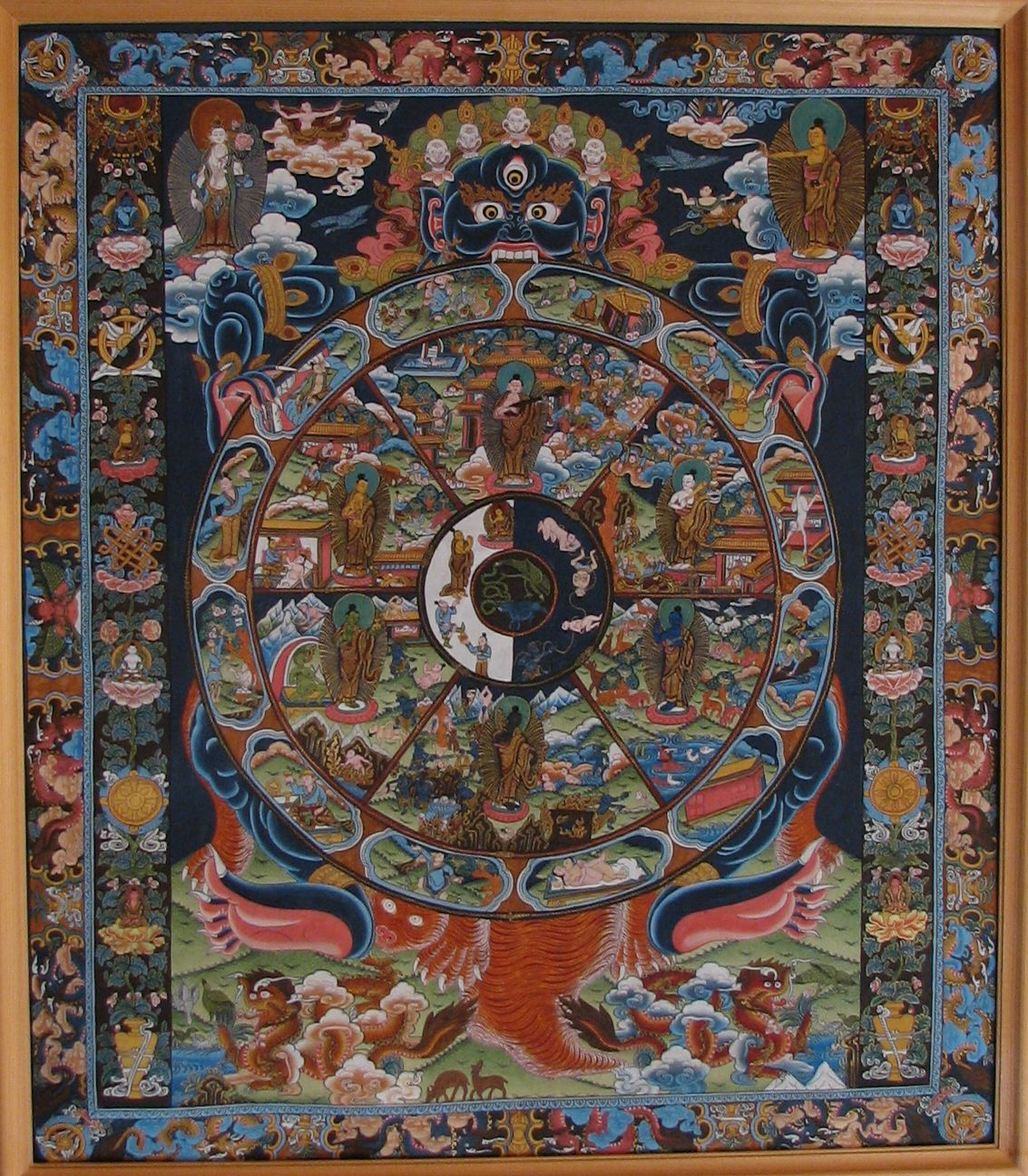 Bhavacakra (Wheel of Becoming) - a complex symbolic representation of saṃsāra used in Tibetan Buddhism.